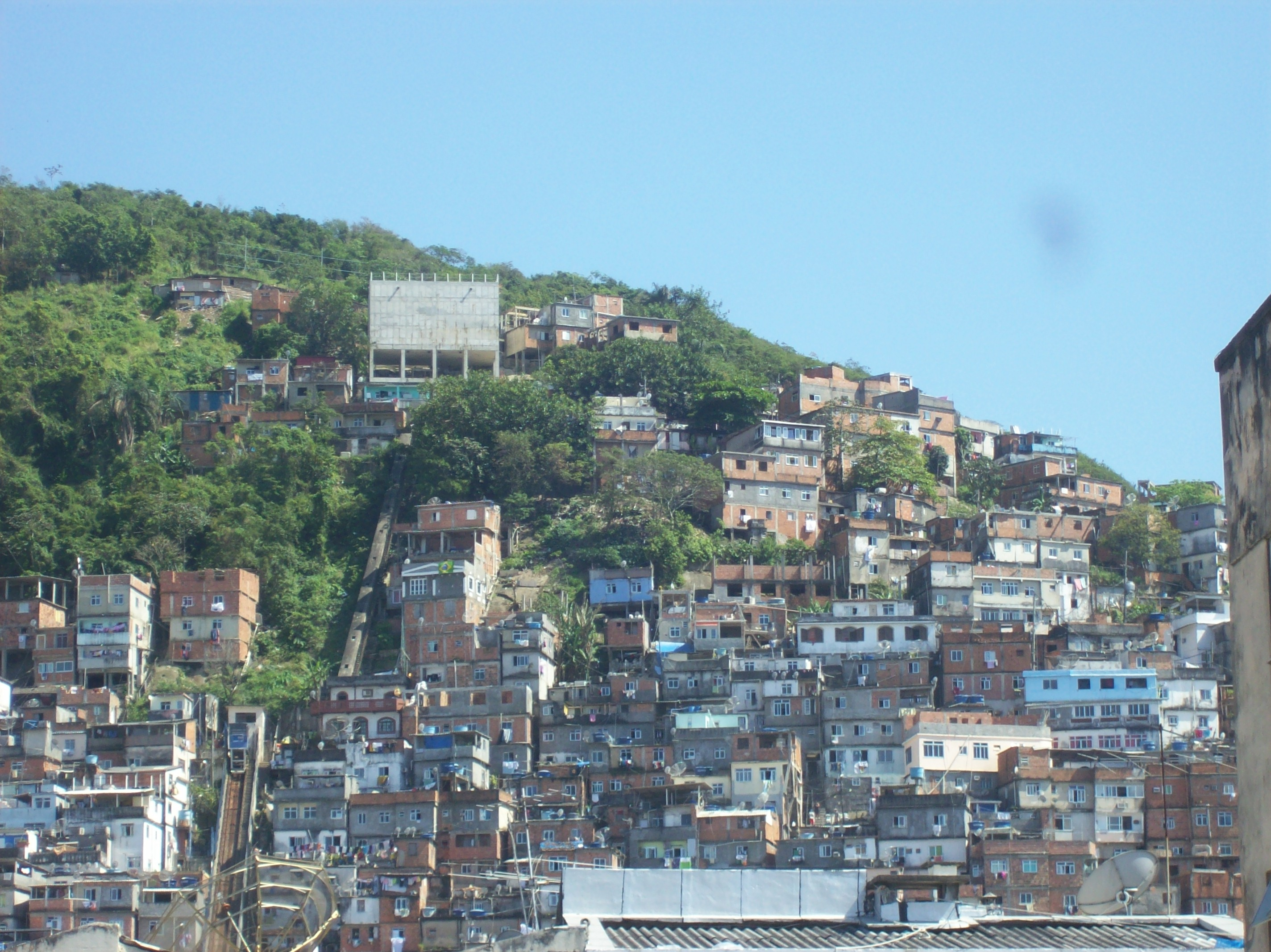 Favelas in Rio de Janeiro, Brazil.